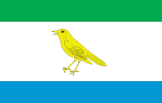 Flag of Rõuge Parish.